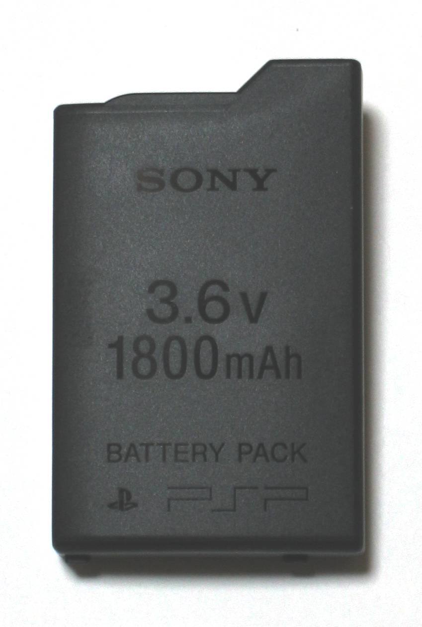 Li-ion battery pack for PSP (PSP-110), 3.6V, 1800mAh.